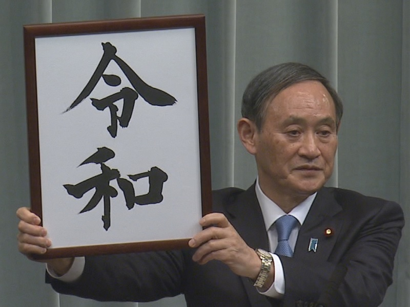 Yoshihide Suga, announcing new imperial era, "Reiwa", to reporters.